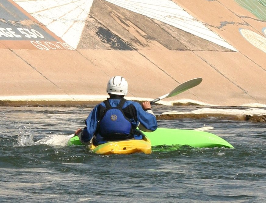 Kayaker in the yellow boat T-rescuing the kayaker in the green boat. Pueblo, Colorado, USA